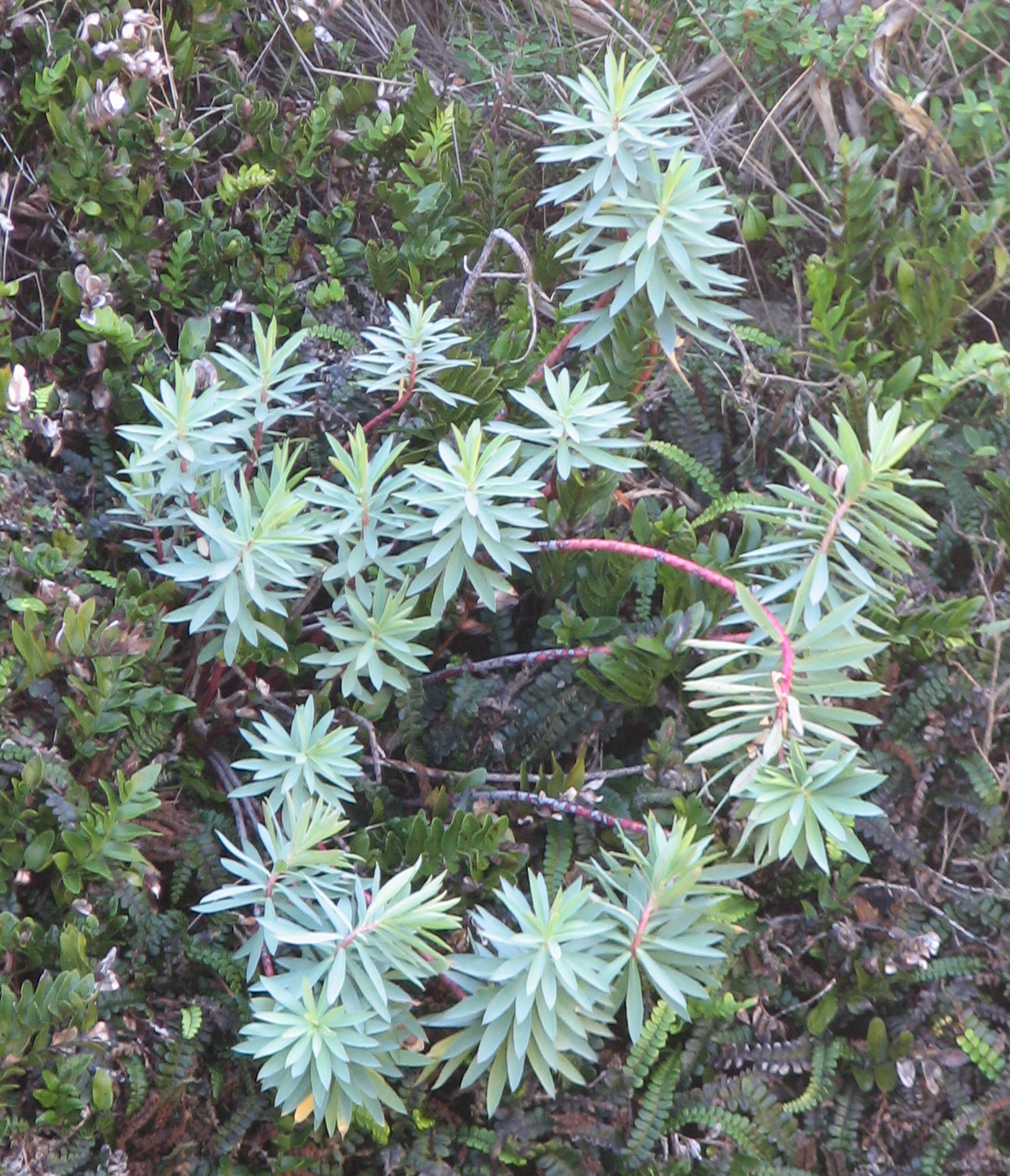 Euphorbia glauca photographed at Punakaiki on the West Coast of New Zealand.